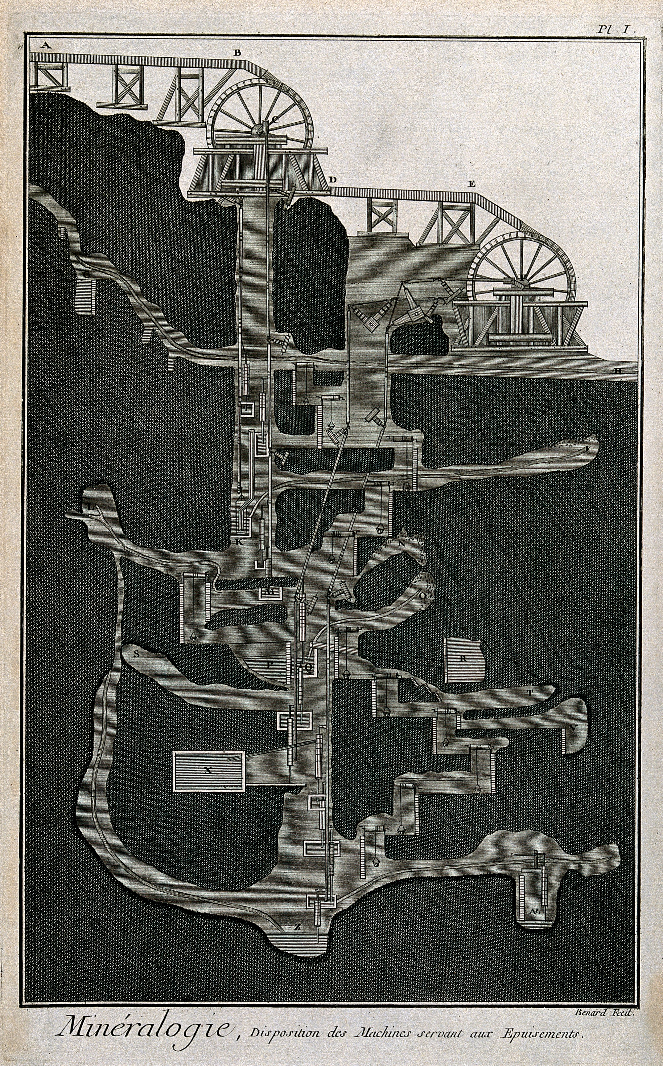 A mine: cross-section of a digging equipment. Etching by Bénard after De La Rue. Iconographic Collections Keywords: Robert Bénard